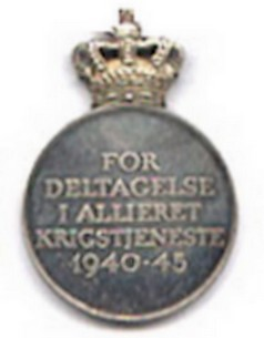 King Christian X's Commemorative Medal for Service in the War 1940-45 - rewers